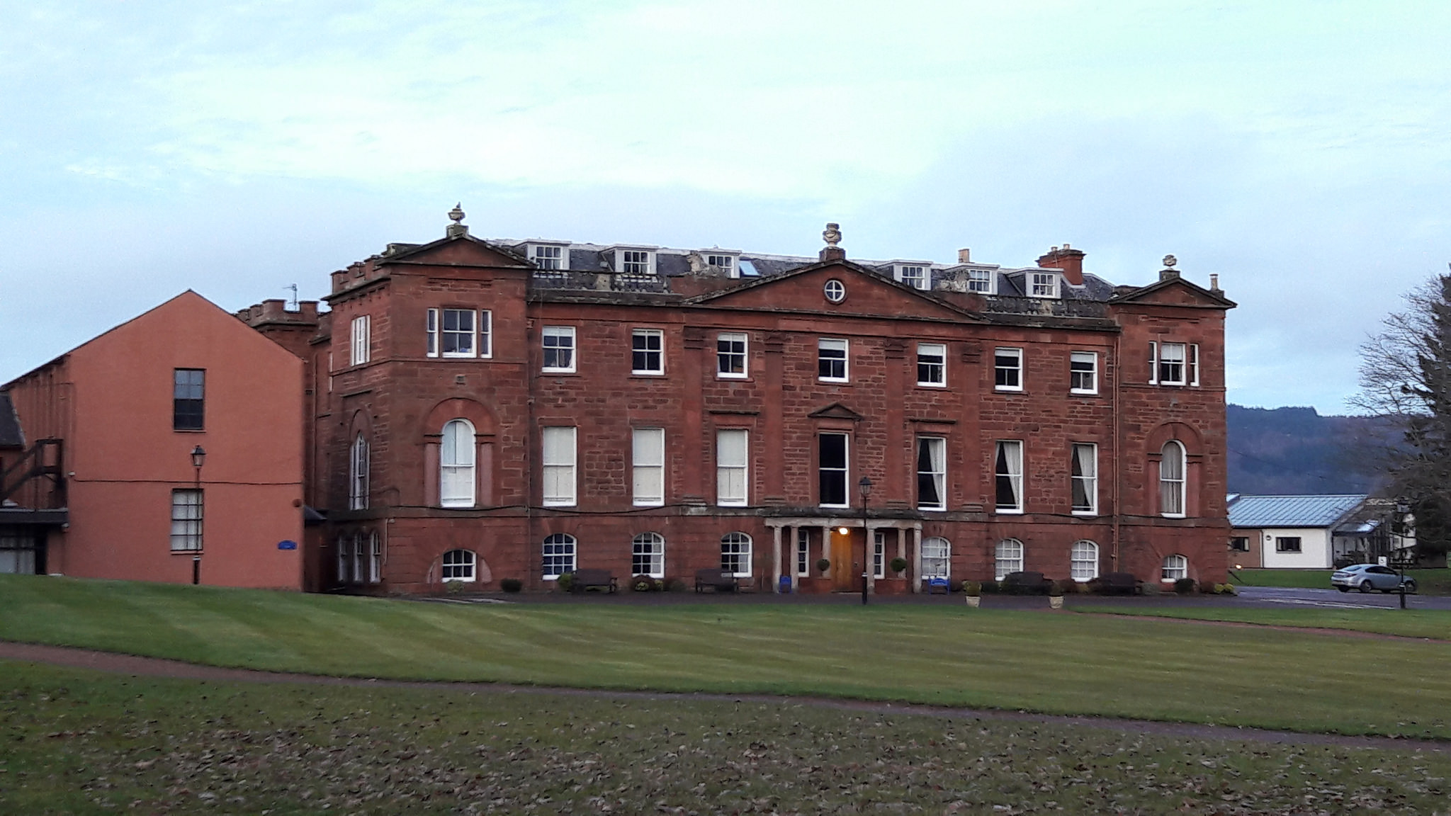 Kilgraston School, a Catholic boarding school in Perth founded by the Religious of Sacred Heart